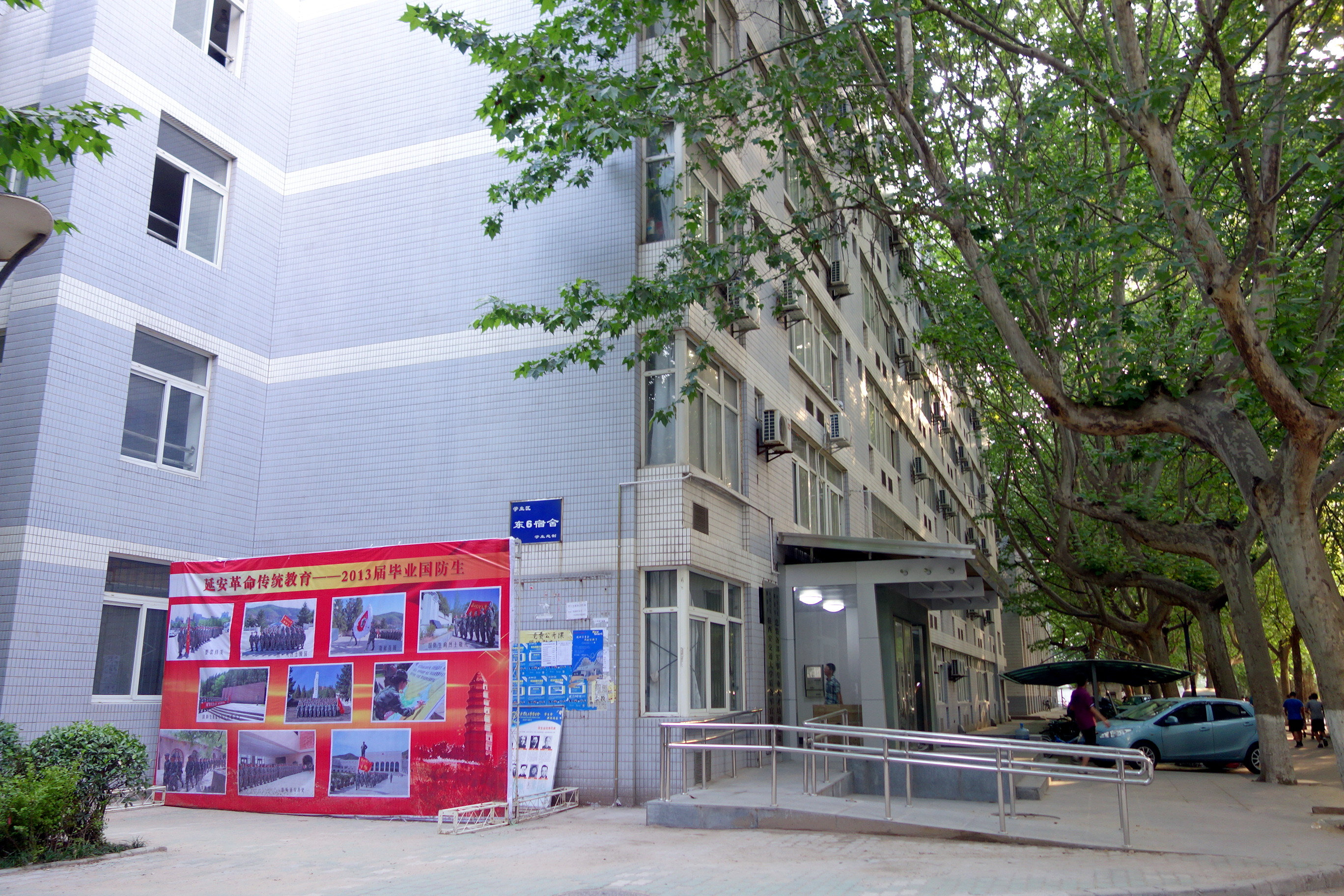 The East 6 Dorm Building ("東 6" 宿舍樓) of Xi'an Jiaotong University. 中文（香港）: 西安交通大學「東 6」宿舍樓。